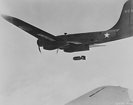 A USAAF Douglas B-23 Dragon (s/n 39-03?) dropping a bomb during a training flight in the U.S. in 1942. Original caption: "A Flying Fortress (B-17) bomber discharging a bomb on an enemy target." Note: The aircraft is no 4-engined B-17, but a B-23, which was never used in combat.